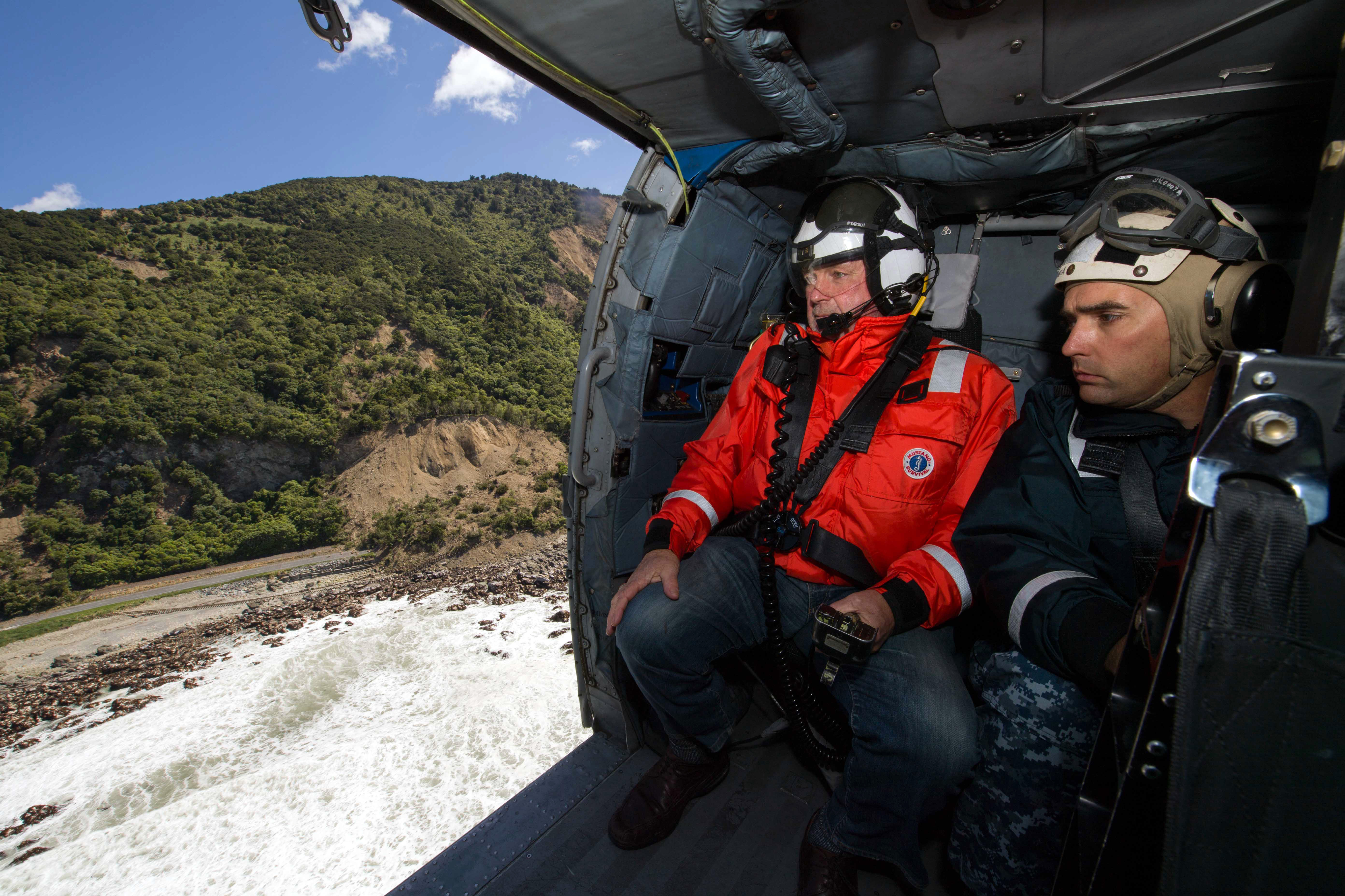 KAIKOURA, New Zealand (Nov. 18, 2016) Cmdr. Timothy LaBenz, right, commanding officer of Arleigh Burke-class guided-missile destroyer USS Sampson (DDG 102), and Kaikoura Mayor Winston Gray, survey the damage to local infrastructure in a MH-60R Sea Hawk from the Battle Cats of Helicopter Maritime Strike (HSM) squadron 73, attached to Arleigh Burke-class guided-missile destroyer USS Sampson (DDG 102). Sampson, at the request of the government of New Zealand, remains off the coast of New Zealand’s South Island to offer assistance to those affected by the recent earthquake. (U.S. Navy photo by Petty Officer 2nd Class Bryan Jackson/Released)161118-N-DJ750-146 Join the conversation: navylive.dodlive.mil